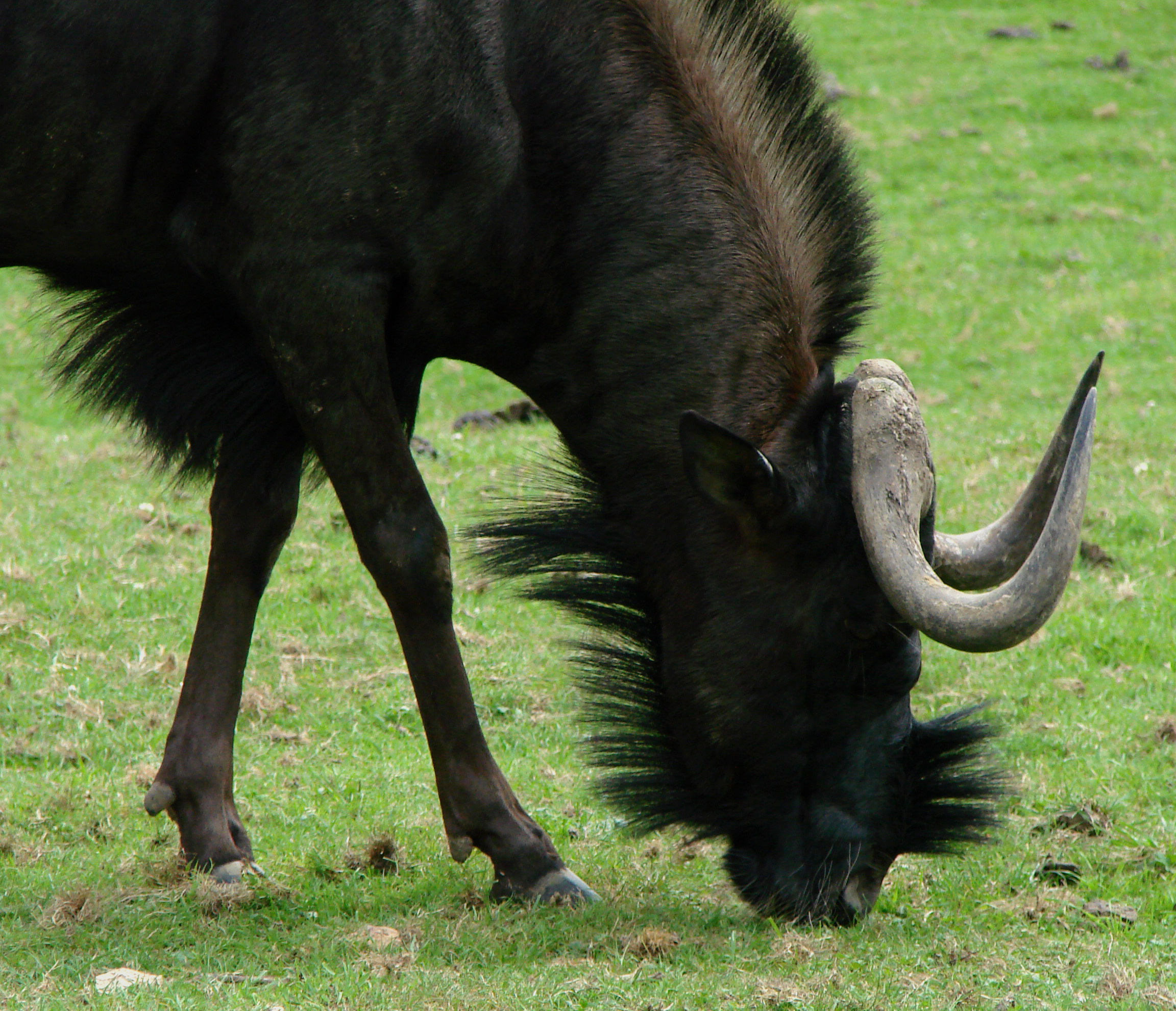 White-tailed gnu or black wildebeest (Connochaetes gnu) in Thoiry zoo.